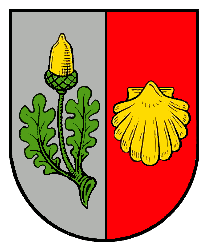 Coat of arms of Lohnsfeld